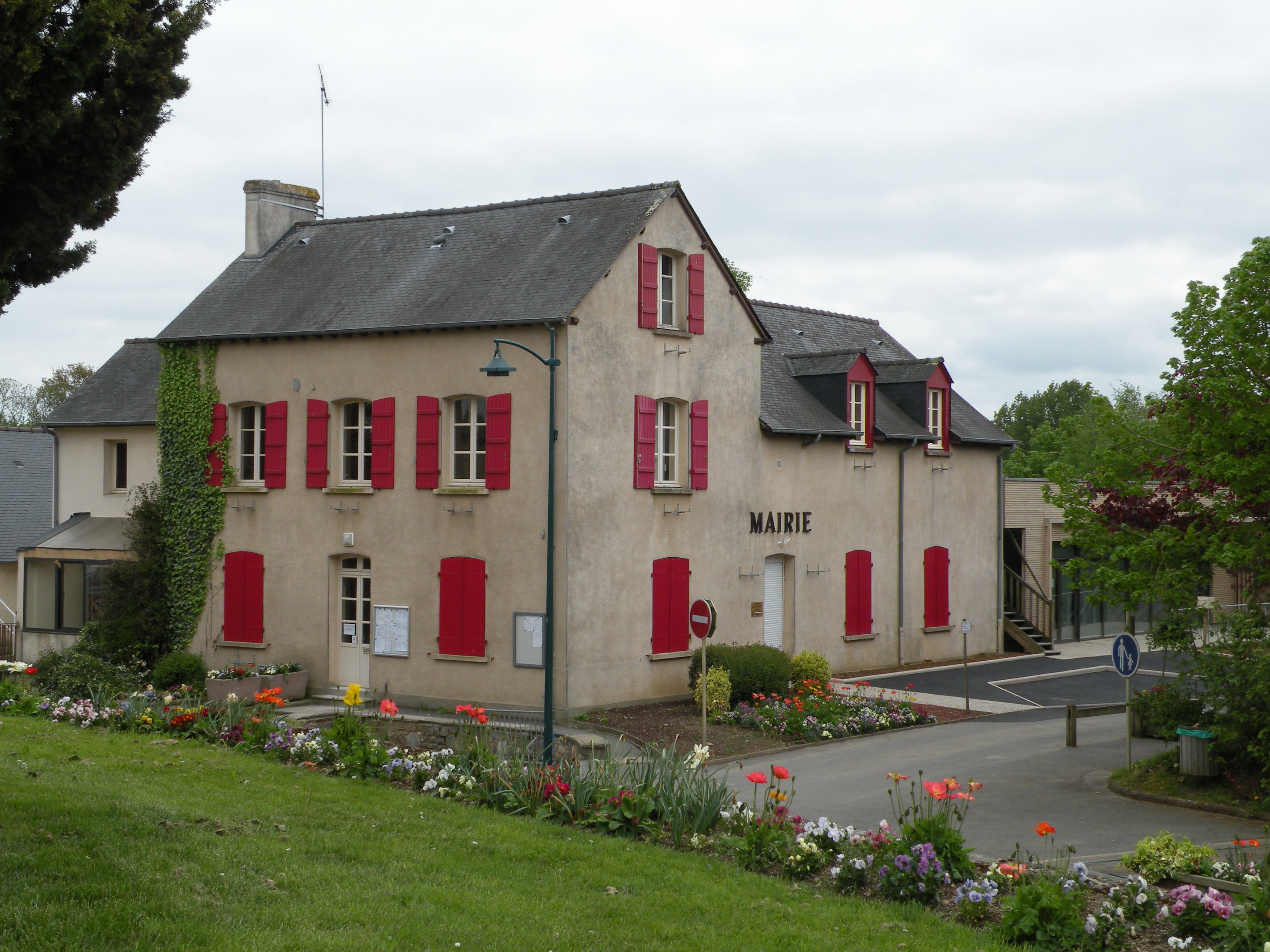 Town hall of Domloup